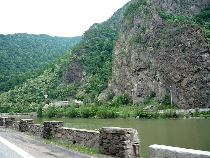 the Turnu Roșu Pass (Rotenturmpass, Vöröstoronyi-szoros) between Tălmaciu, Transylvania and Râmnicu Vâlcea, Wallachia; Romania (river's name is Olt)